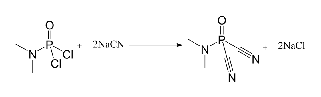 Synthesis of Dimethylamidophosphoric dicyanide